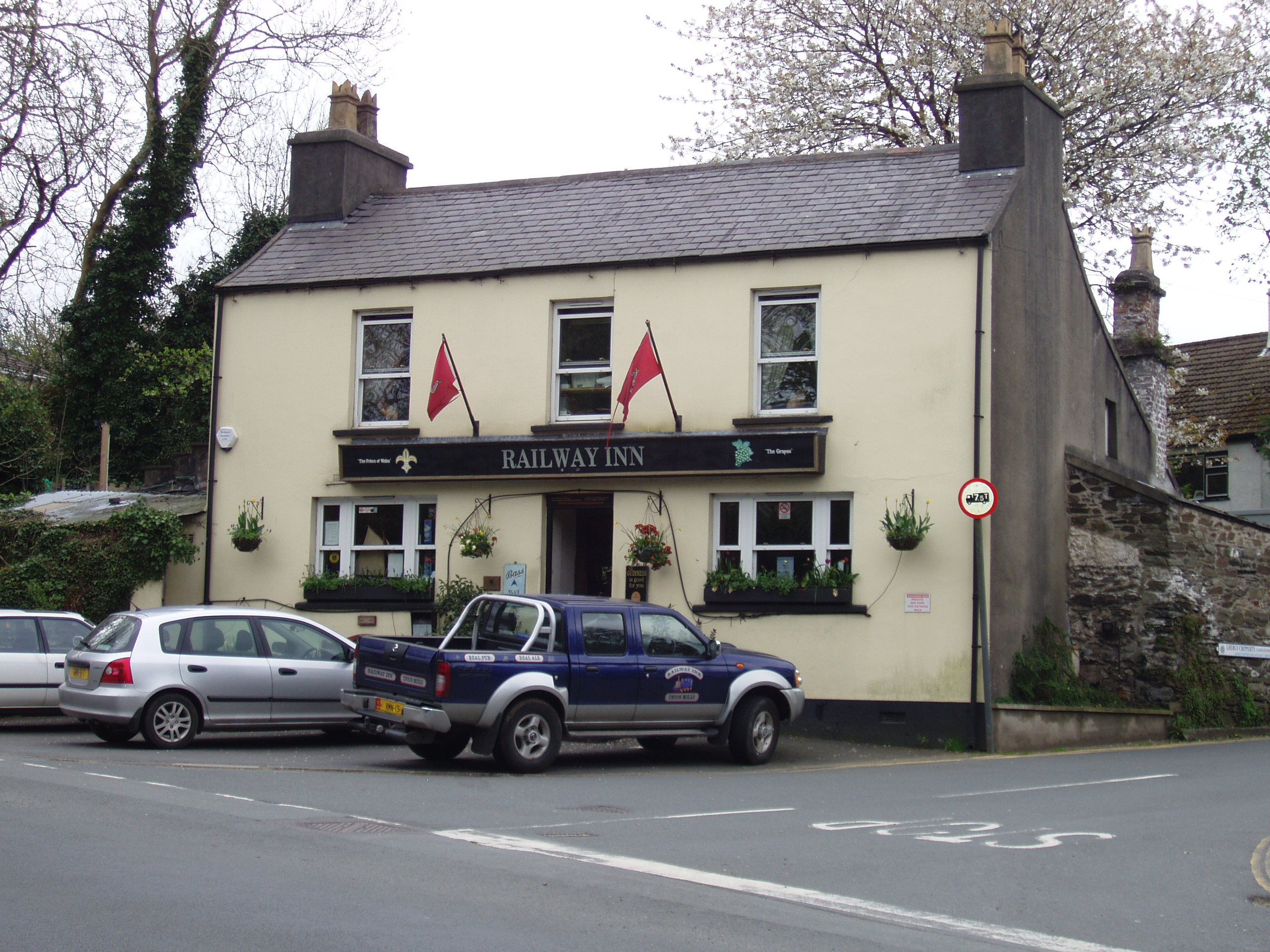 The Railway Inn is a pub situated on the corner of Lhergy Cripperty and Peel (A1) Roads in Union Mills, Isle of Man.